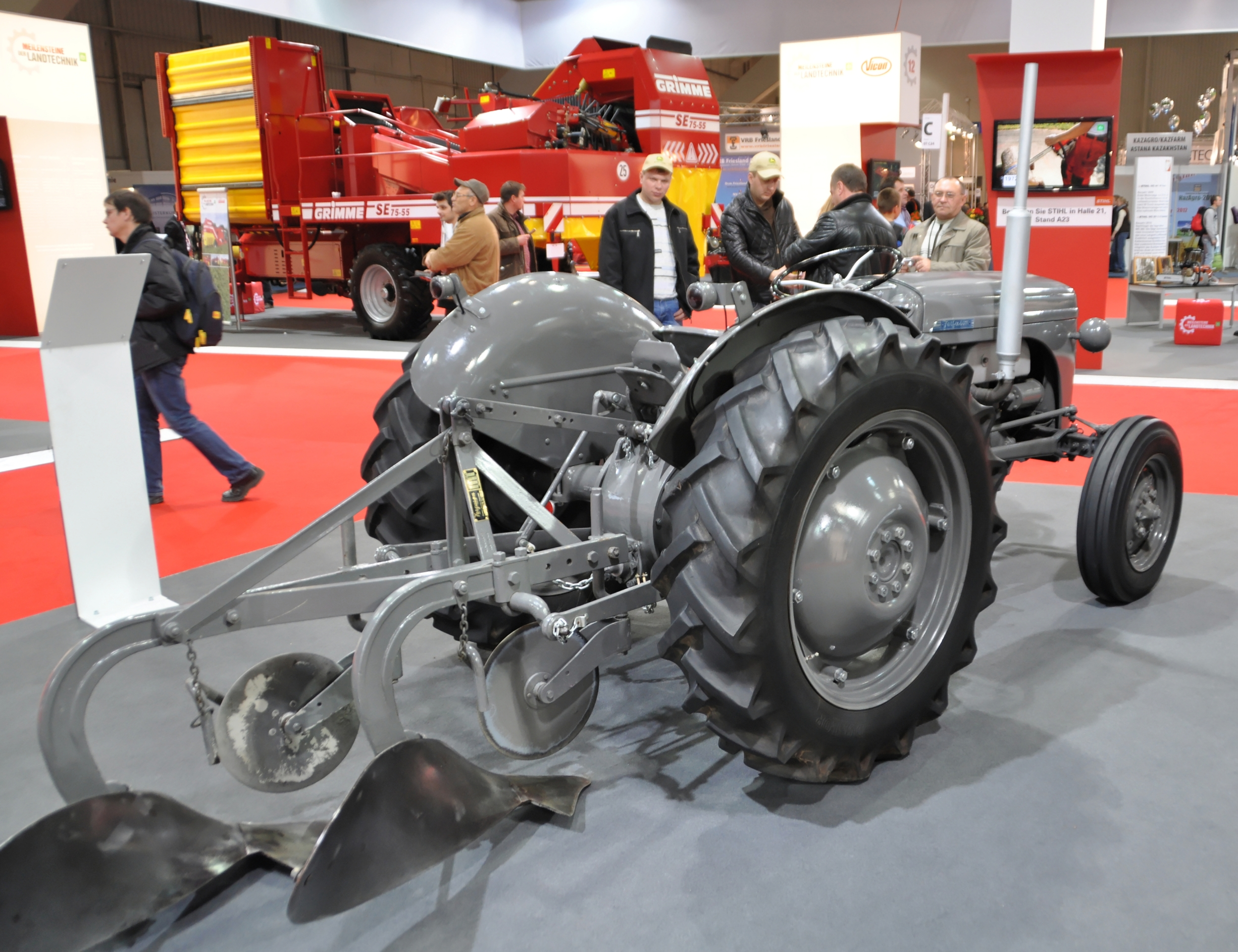 A Ferguson tractor hooked up to a Ferguson plough via a 3-point hitch. The plow is equipped with two coulters (the disks in front of the plowshares.) Dieses Foto entstand durch die Mithilfe der Wikimedia Deutschland e. V. bei der Akkreditierung als Fotograf. Wikimedia Deutschland e. V. hilft den Freiwilligen der Wikipedia bei der Erstellung von freien Inhalten.